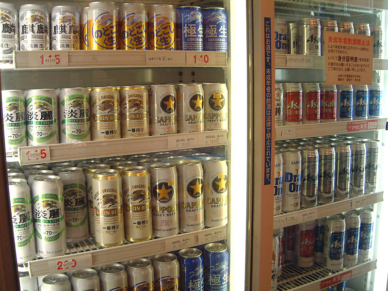 Canned Japanese beer in a liquor shop